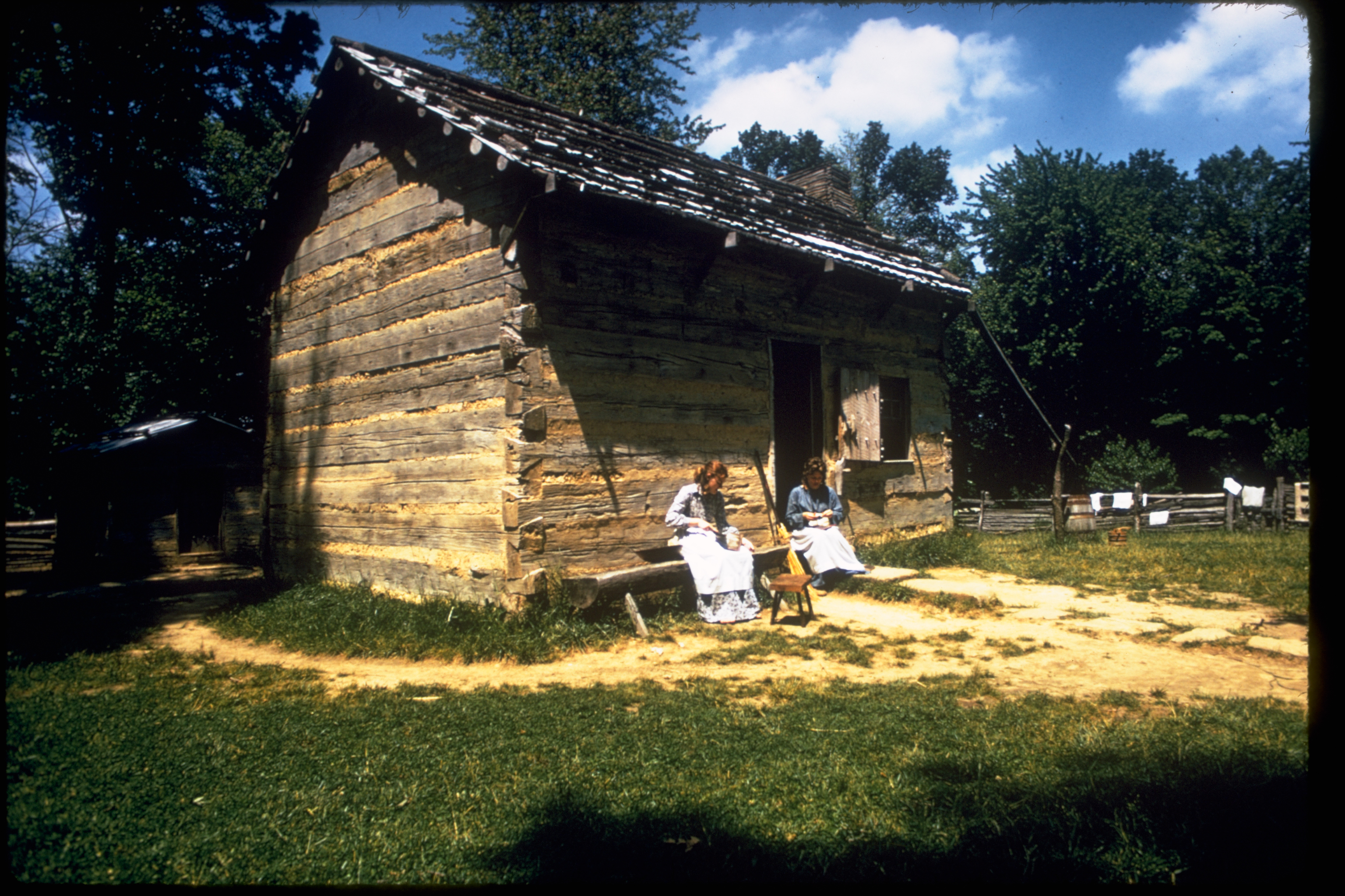 Abraham Lincoln lived on this southern Indiana farm from 1816 to 1830. During that time, he grew from a 7-year-old bot to a 21-year-old man. His mother, Nancy Hanks Lincoln, is buried here.